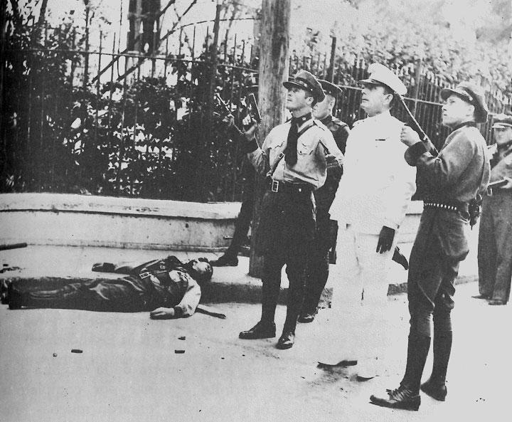 This is a famous historical photo taken of the Ponce Massacre in Ponce, Puerto Rico. The photo was taken by Angelo Lebron, a photo journalist for the newspaper El Mundo. In accordance with the "Copyright Term and the Public Domain in the United States (January 1, 2009),[1] images published with notice but with no subsequent copyright renewal from 1923 through 1963, are public domain due to copyright expiration." El Mundo, which went out of service in 1986, could not have renewed its copyright which expired. Therefore, since Puerto Rico fell under US copyright in 1937 as well as today, this would make the Ponce Massacre image public domain. (UTC)